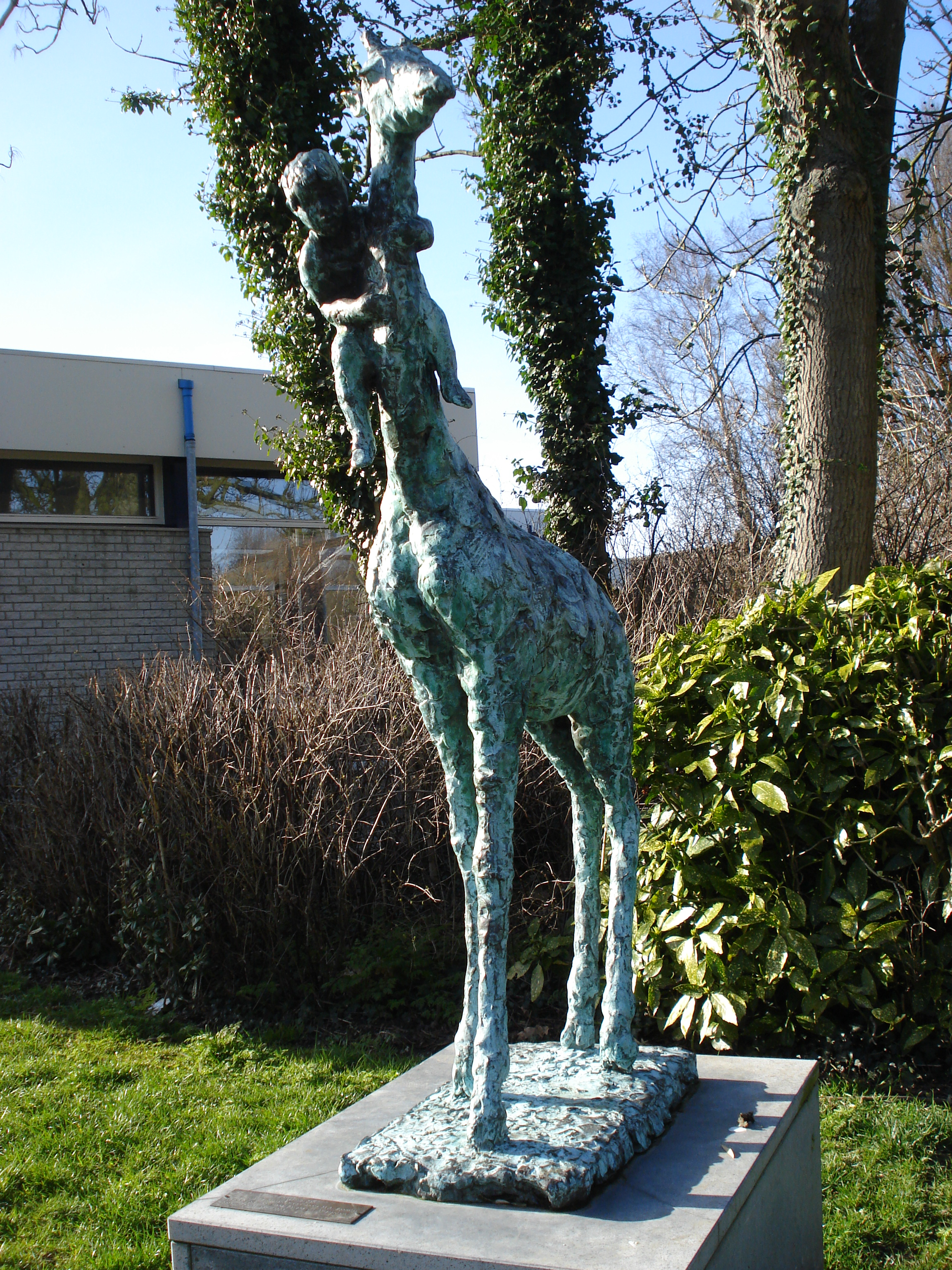 Kapelle (Zeeland,NL) sculpture 'Dikkertje Dap' with giraffe, after a poem of the writer AMG Schmidt, born in Kapelle). Sculptor: Hans Bayens The statue stands before the library.